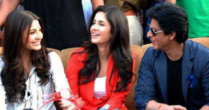 Anushka Sharma, Katrina Kaif and Shahrukh Khan at a promotional event for JAB TAK HAI JAAN